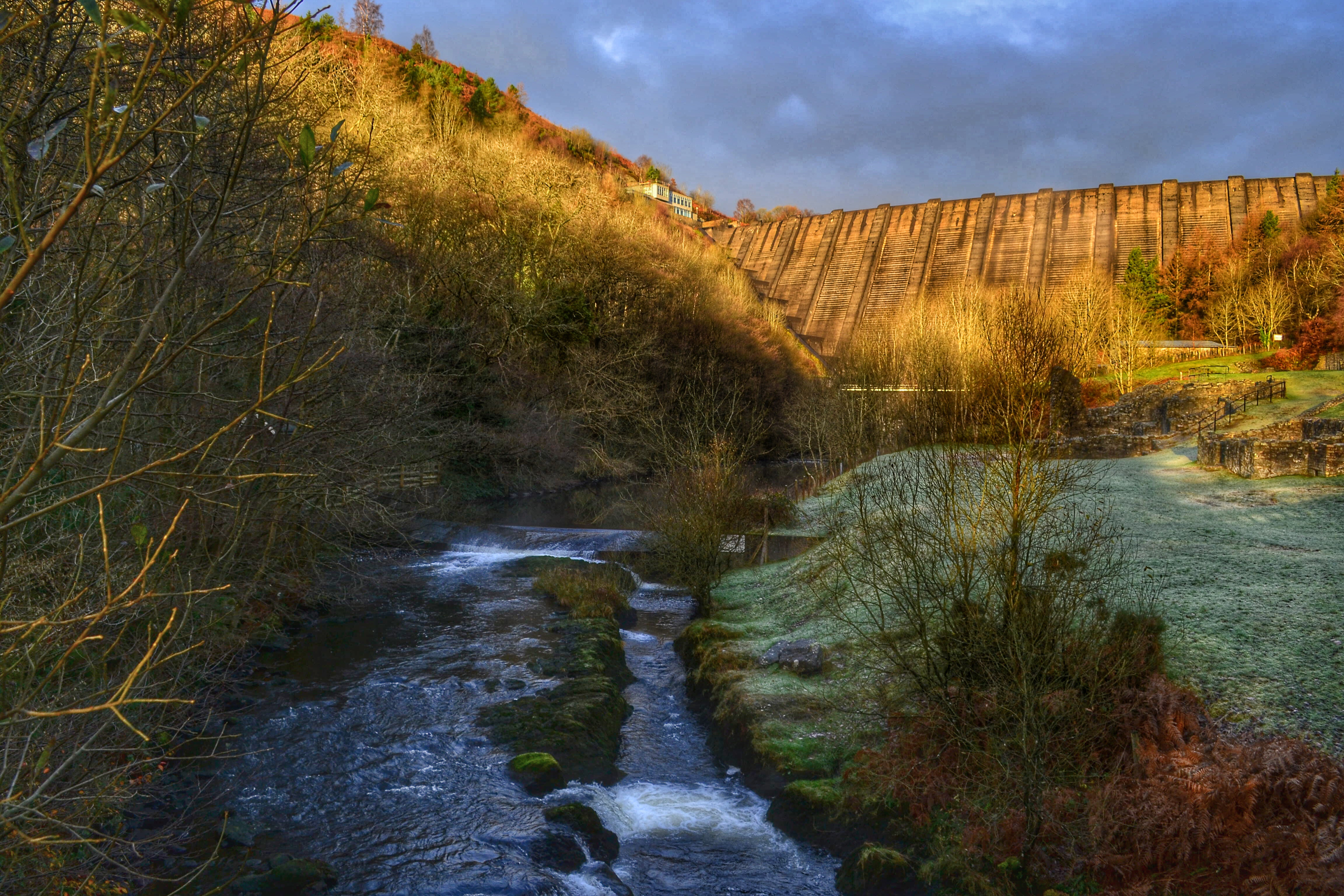 Clywedog dam